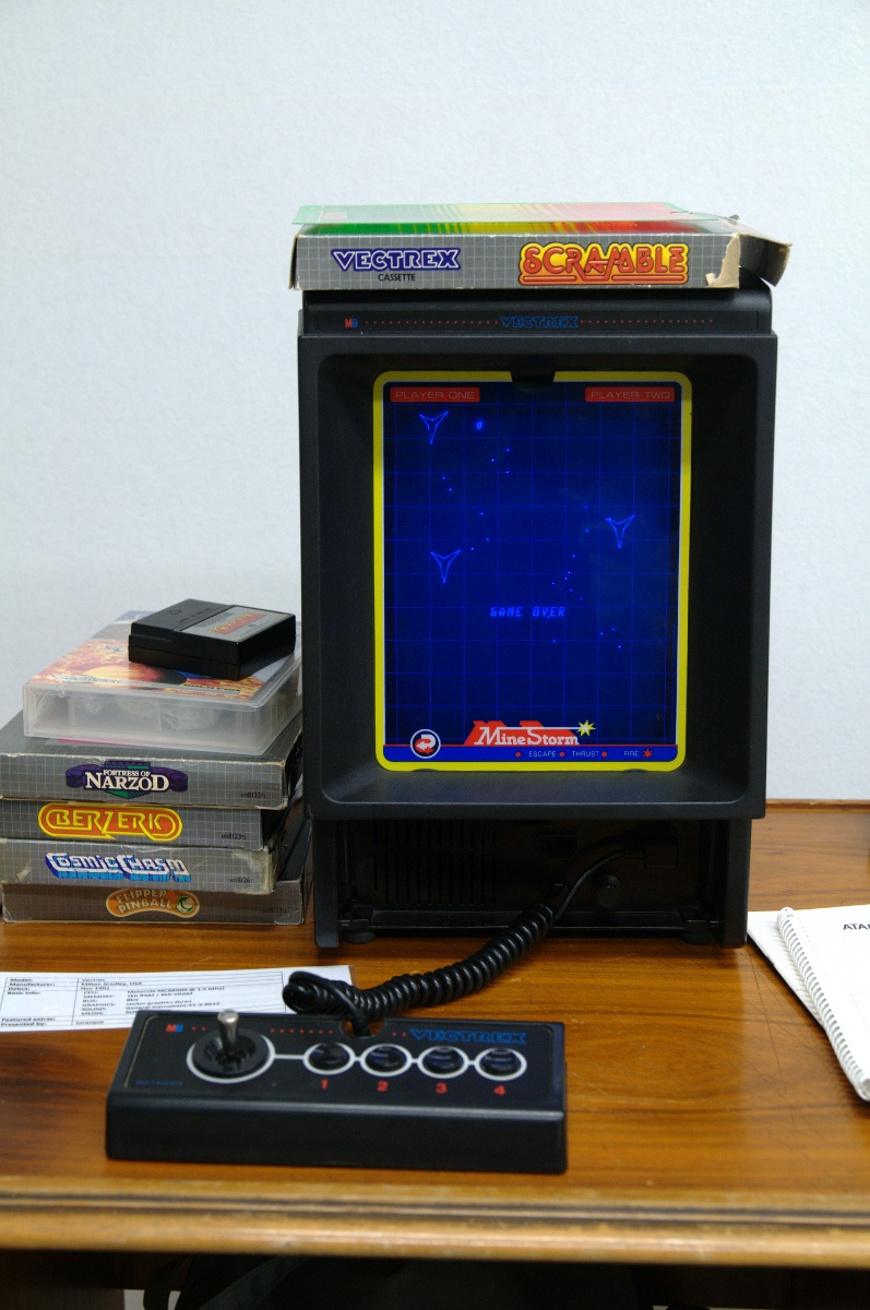 Vectrex video game console. “King of all gaming platforms. Custom vector display (not raster, like every other screen you're likely to encounter these days), with colourful overlays. An arcade machine that fit under your bed, and a gaming collector's holy grail.” Tags: exhibit retrocomputing vectrex oldcomputers silogomaniacom collectingcomputers retrosystem2010 Retrosystems 2010 This retro-computing (and gaming) exhibit on the 4th and 5th of December, 2010, was organised by a forum of collectors, and displayed a number of the Classics. Tags: exhibit retrocomputing vectrex oldcomputers silogomaniacom collectingcomputers retrosystem2010